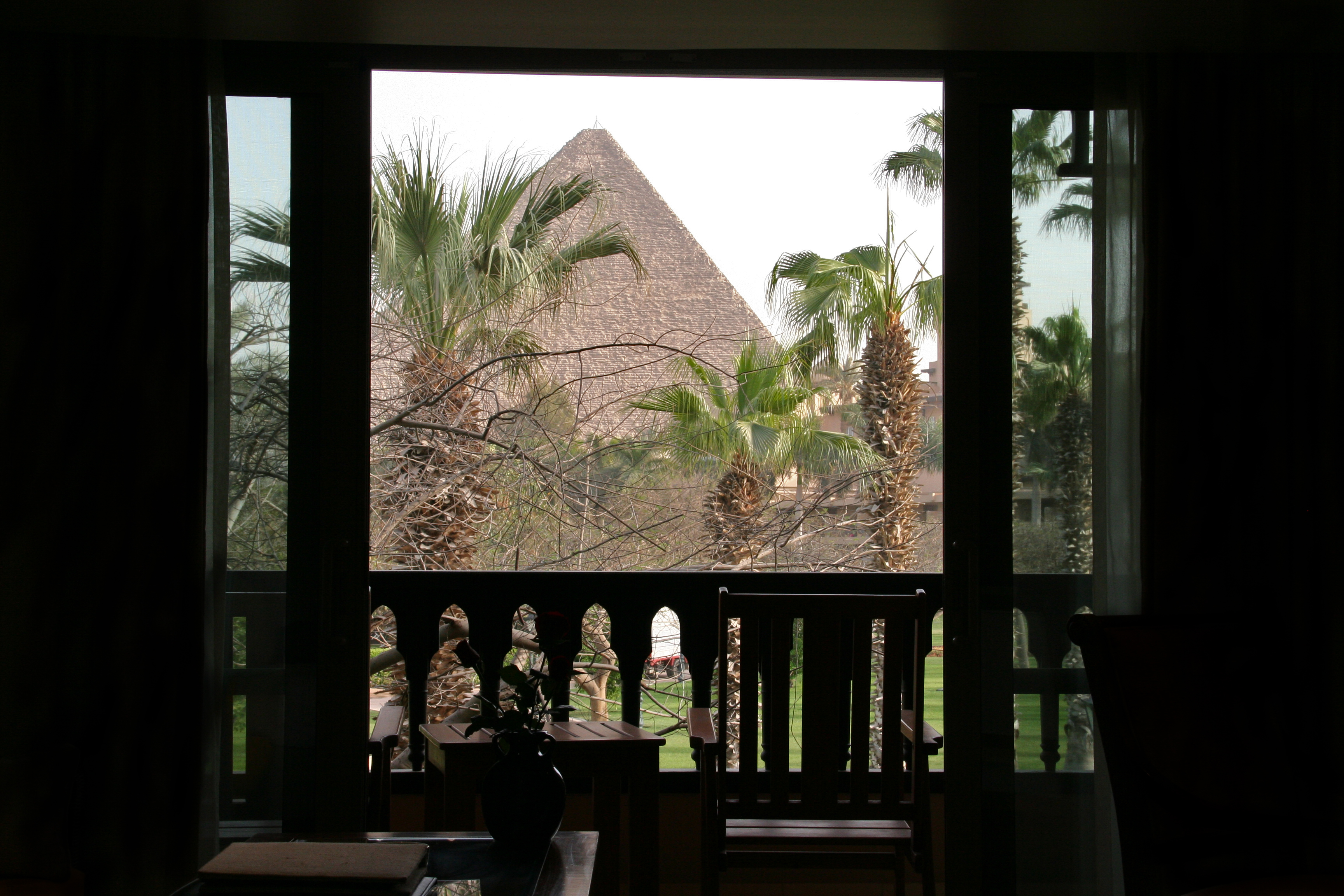 Here's a view from my window on a pyramid. Taken from Michael Tyler - Travel Blog: Waypoints accurate to 100ft.